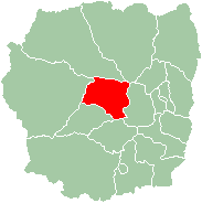 Location map of Miarinarivo region in Antananarivo province.